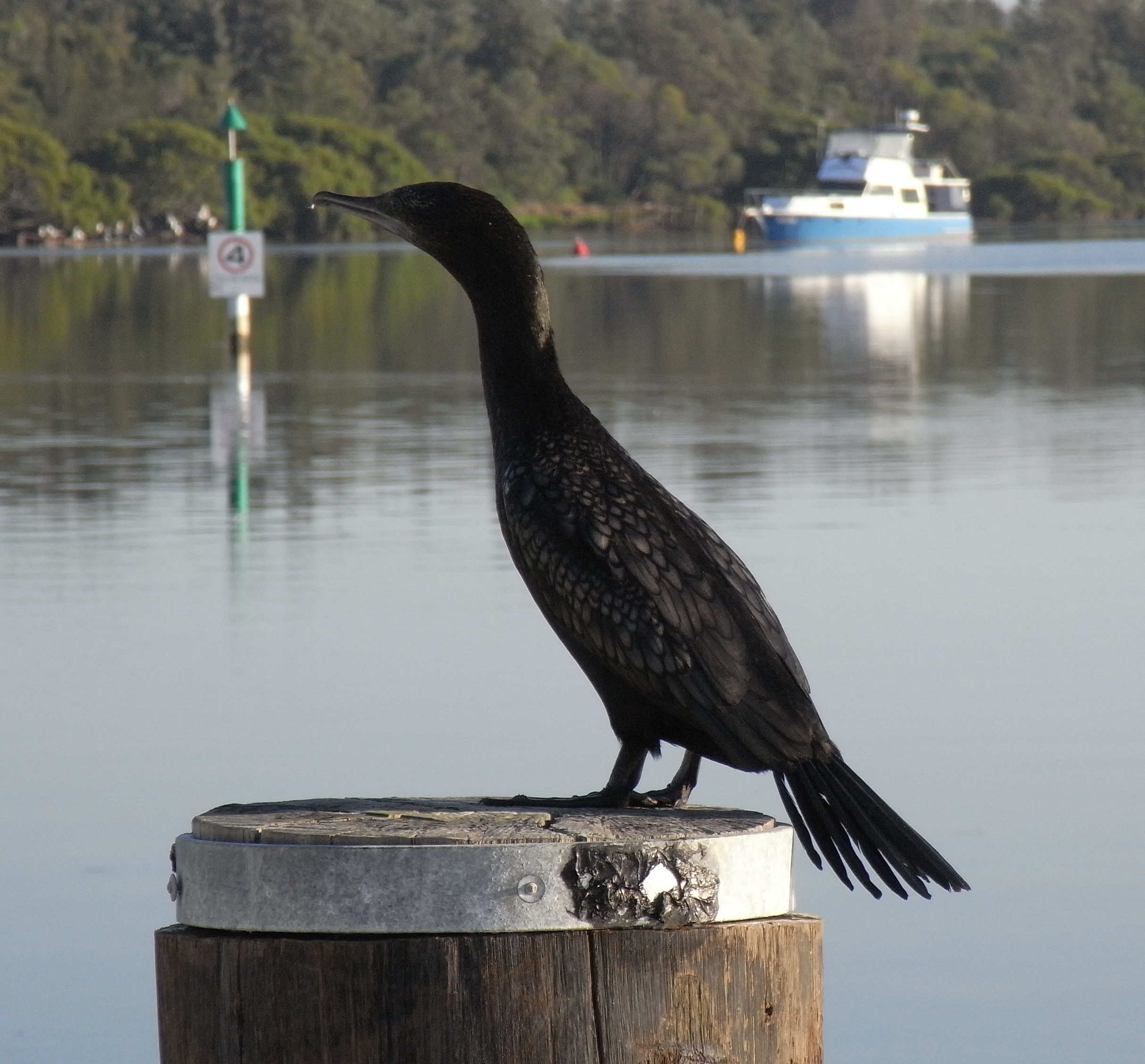 Little Black Cormorant (Phalacrocorax sulcirostris) on the Myall River docks of Tea Gardens, New South Wales, Australia.